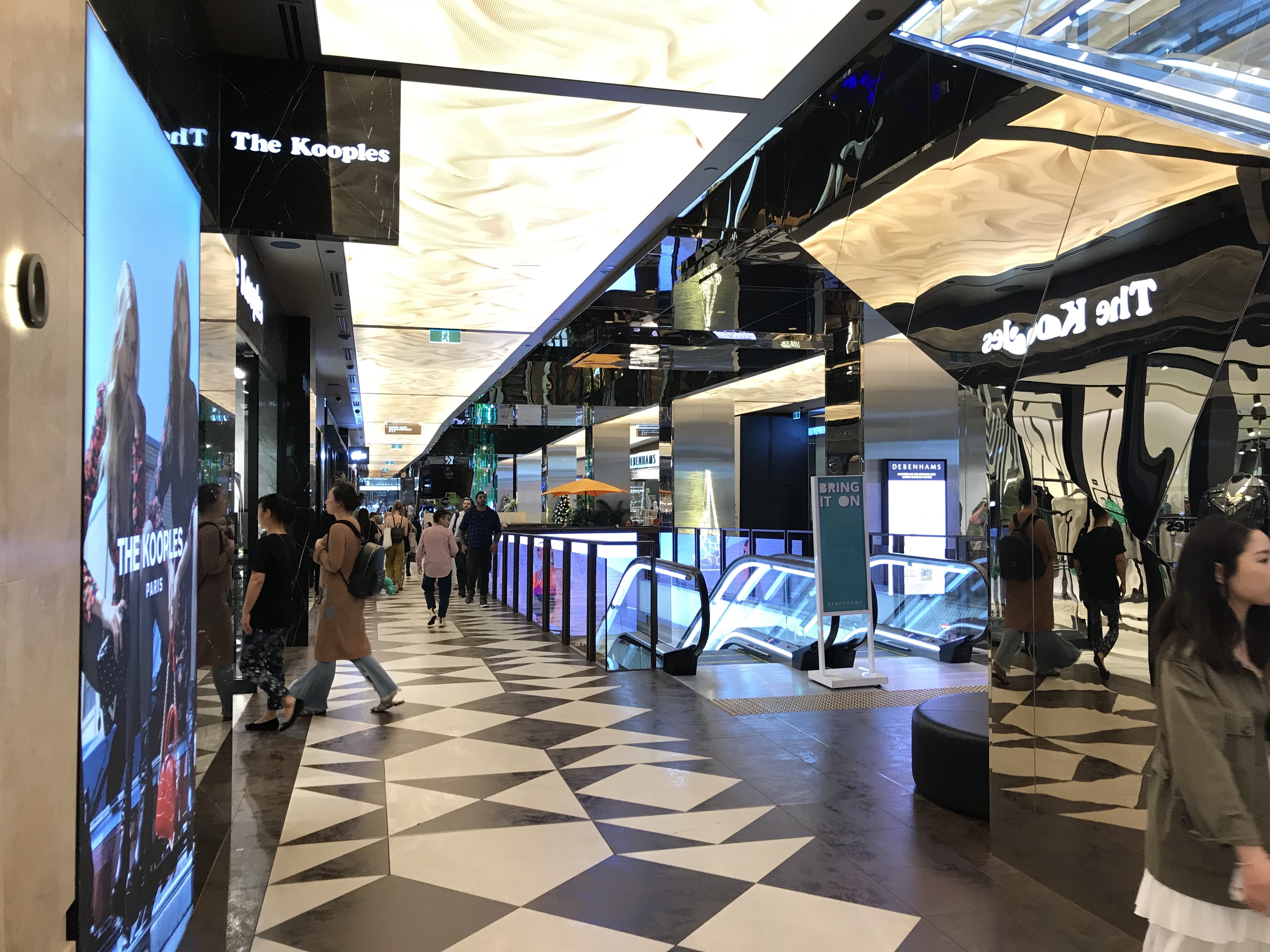 Level 1 Shops